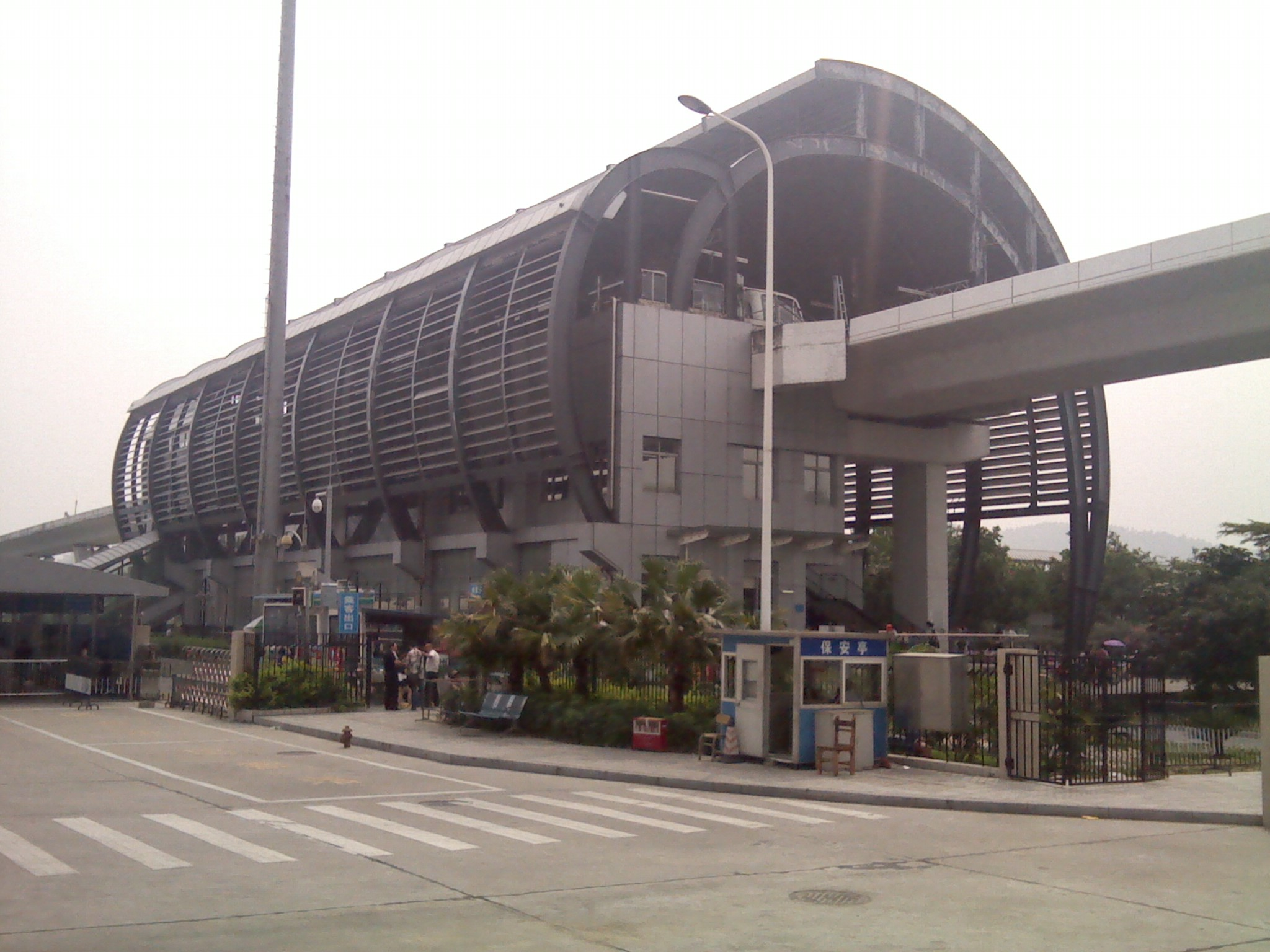 蕉门站车站外观